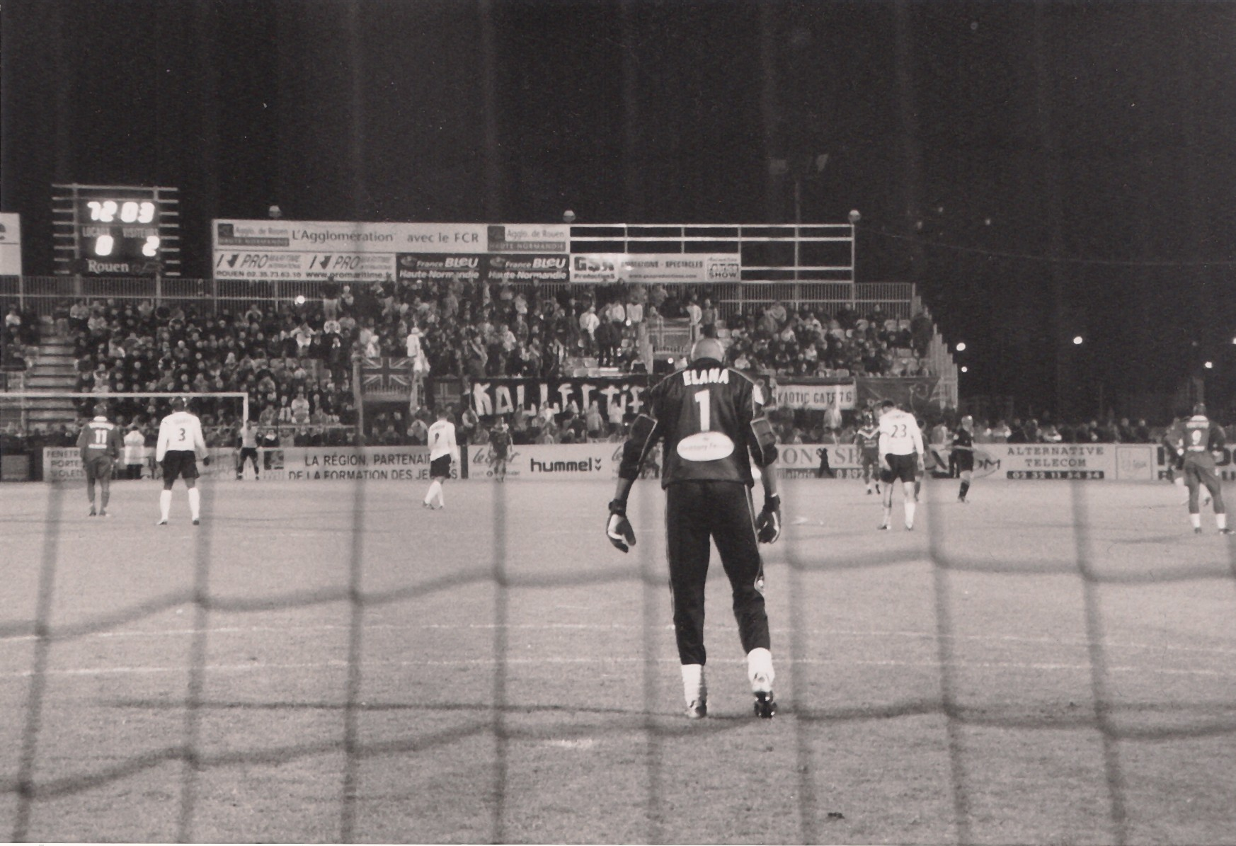 football match FC Rouen - SM Caen, Steeve Elana from behind.